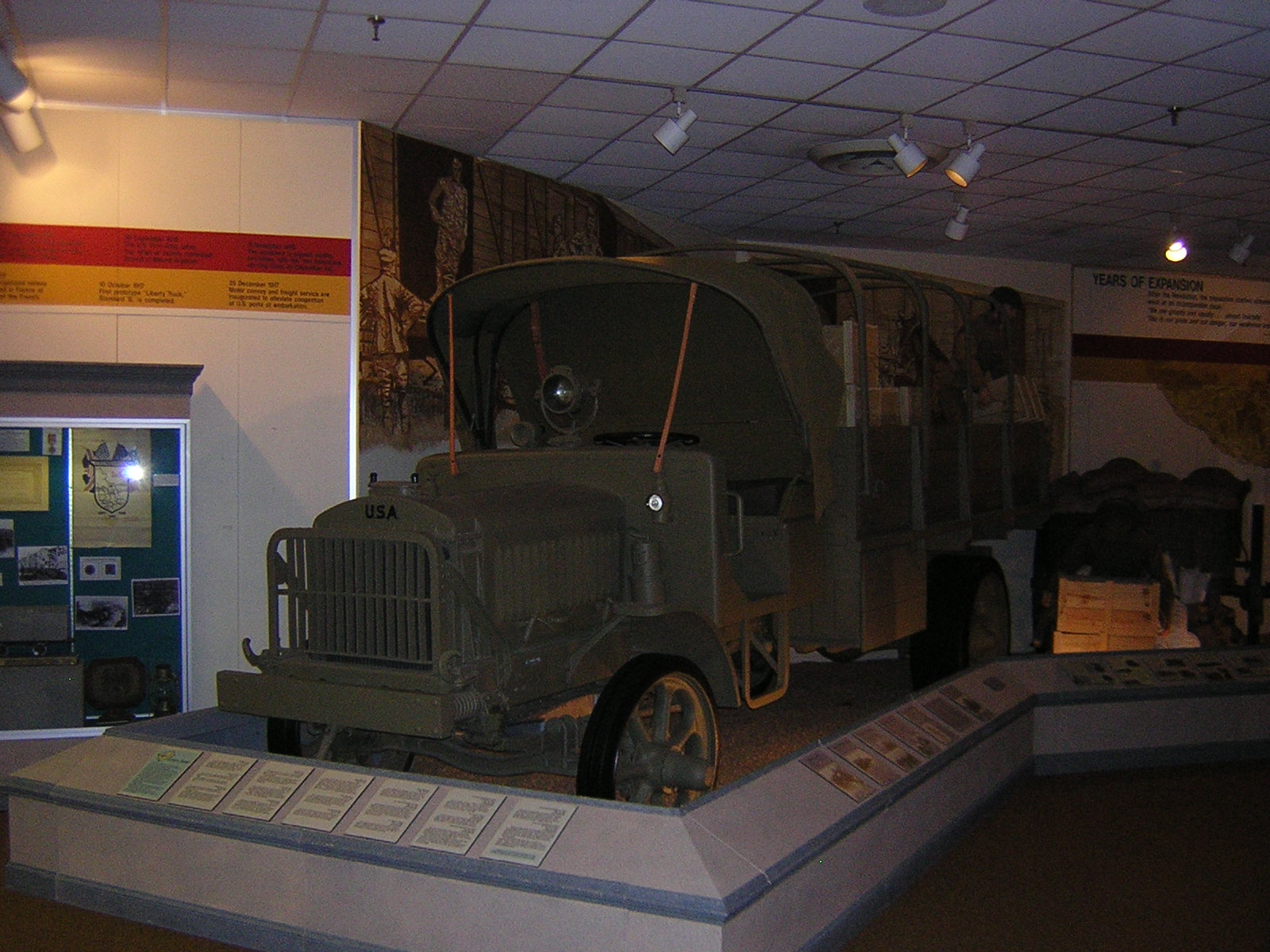 A Liberty truck model Standard B 3 ton, with twin rear wheels, 1918-1919. This was the first "standard truck" of the US Army, in a diorama display at the U.S. Army Transportation Museum, Fort Eustis, Virginia This exhibit is located in the indoor exhibits area (E on map, see key).